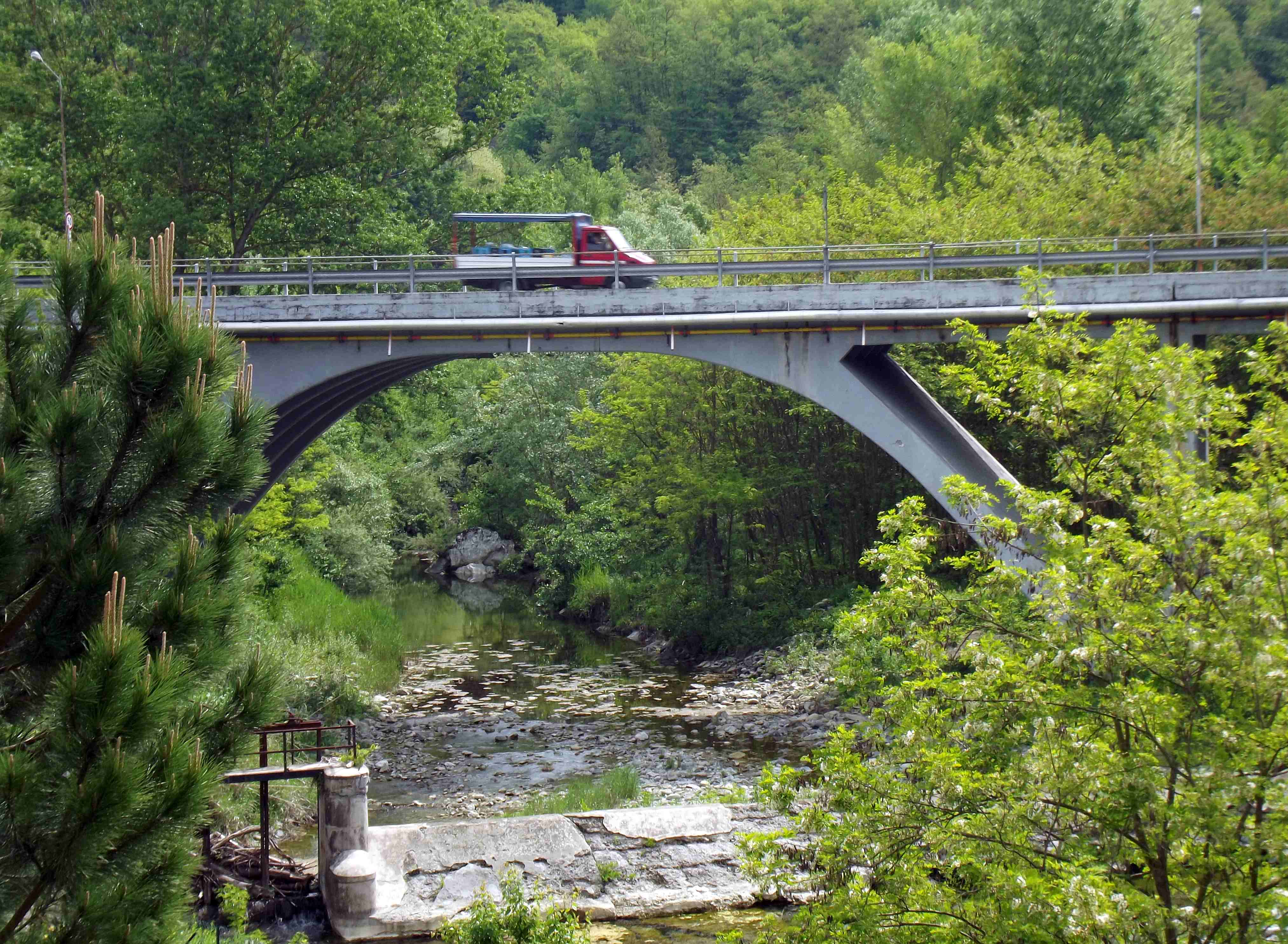 Bridge on the Valla of the fomer italian national road n. 30 di Val Bormida